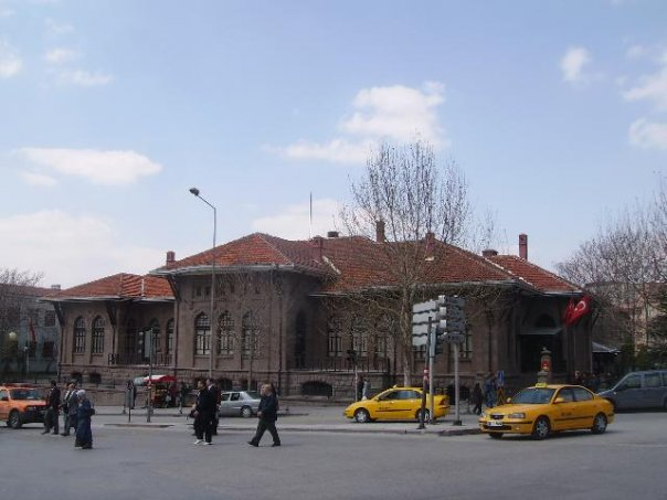 War of Independence Museum at 14/22 Cumhuriyet Bulvarι, Ulus, Ankara, Turkey.